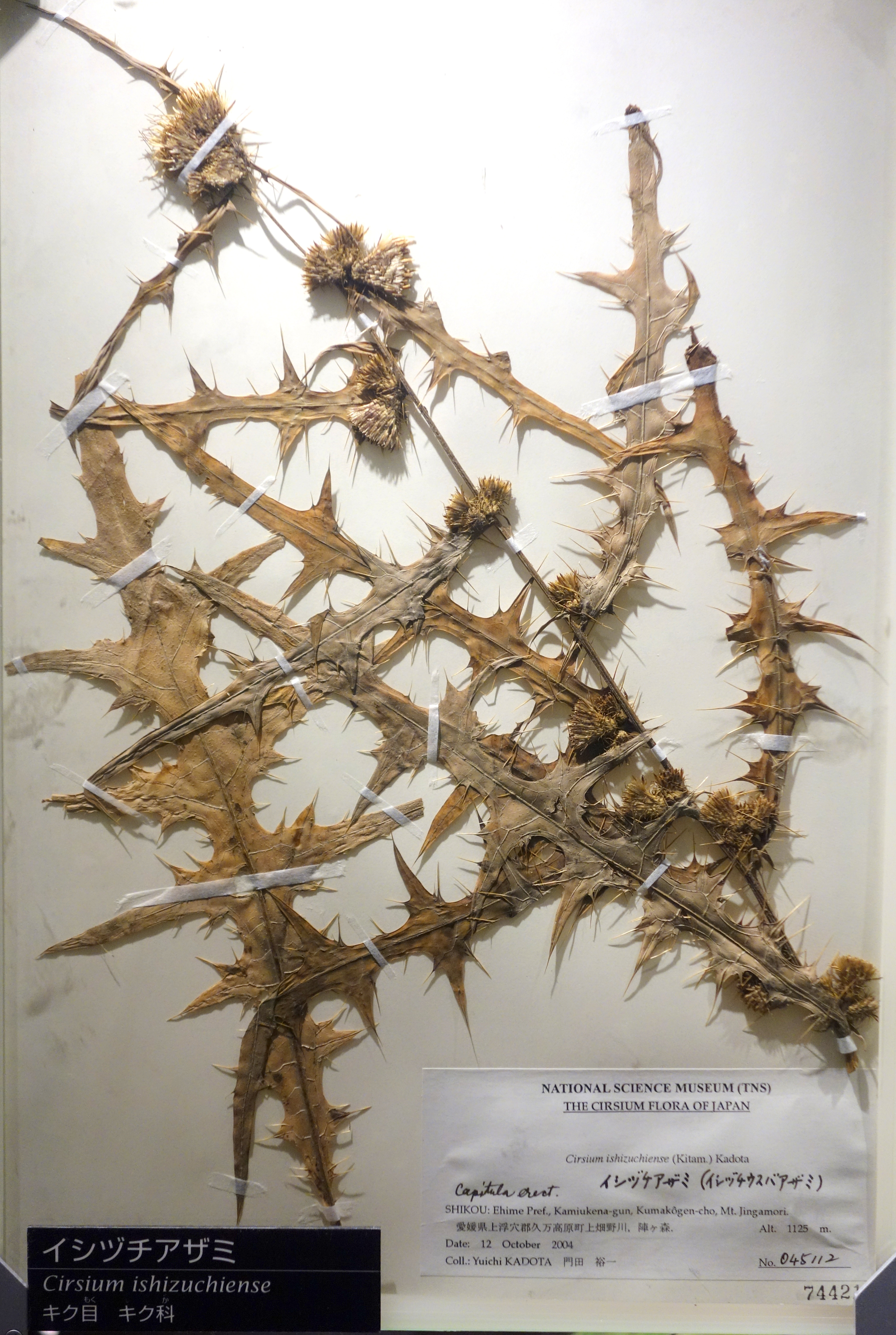 Exhibit in the National Museum of Nature and Science, Tokyo, Japan.